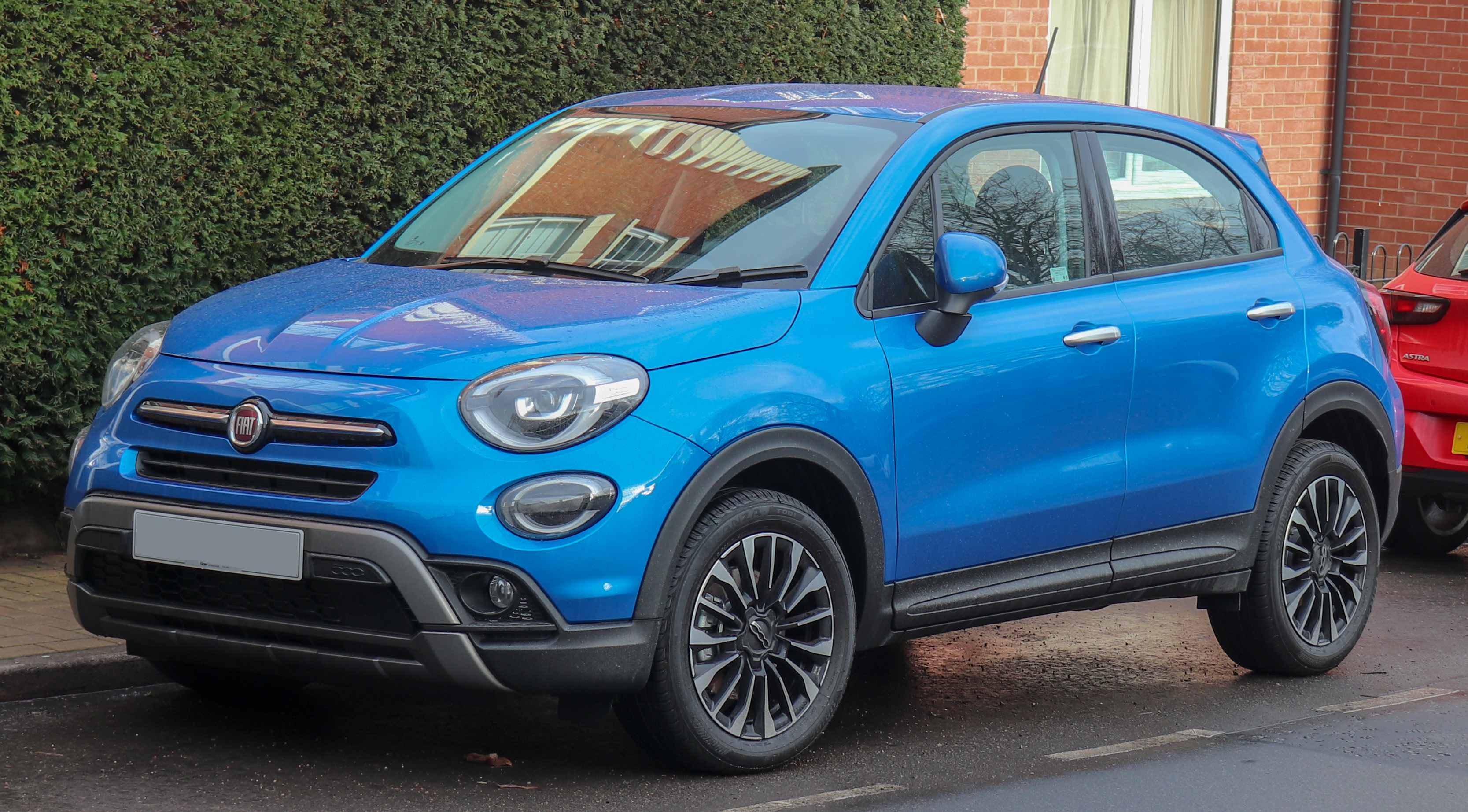 2018 Fiat 500X City Cross 1.0 Front Taken in Warwick